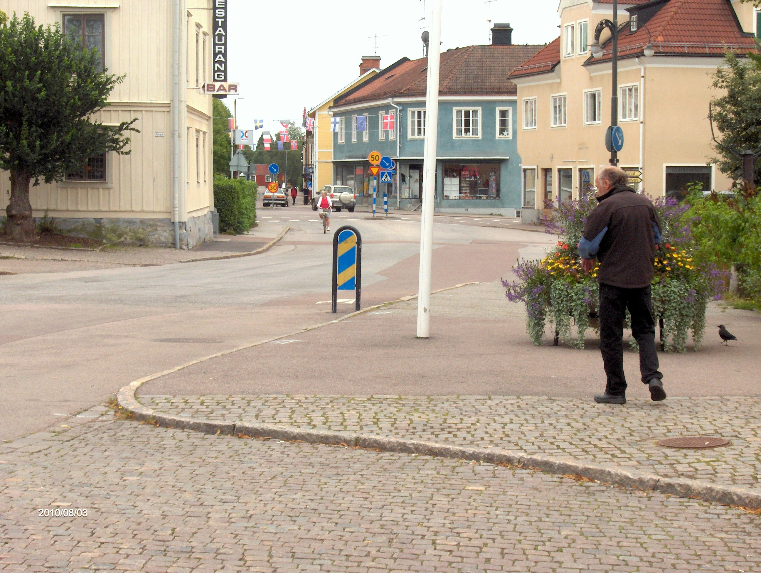 Engelbrektsgatan i the village Norberg in central Sweden. (Västmanland; Bergslagen). To the left Wärdshuset Engelbrekt, ex Warggården. In the 18th Century "skjutsstation".